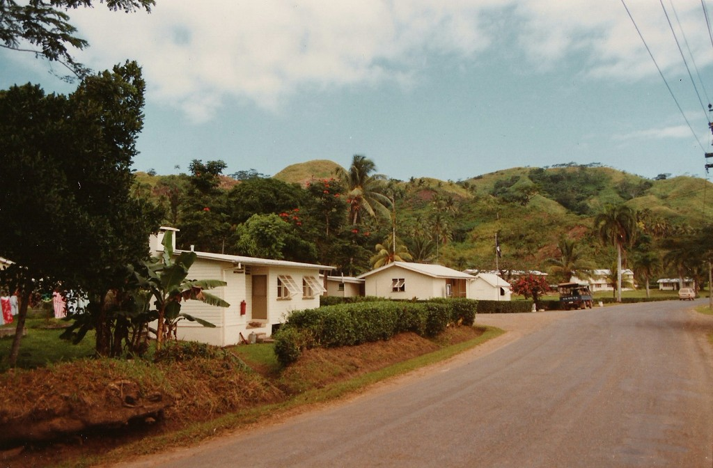 Savusavu, Fiji Photo taken by Paul Dashwood 1985